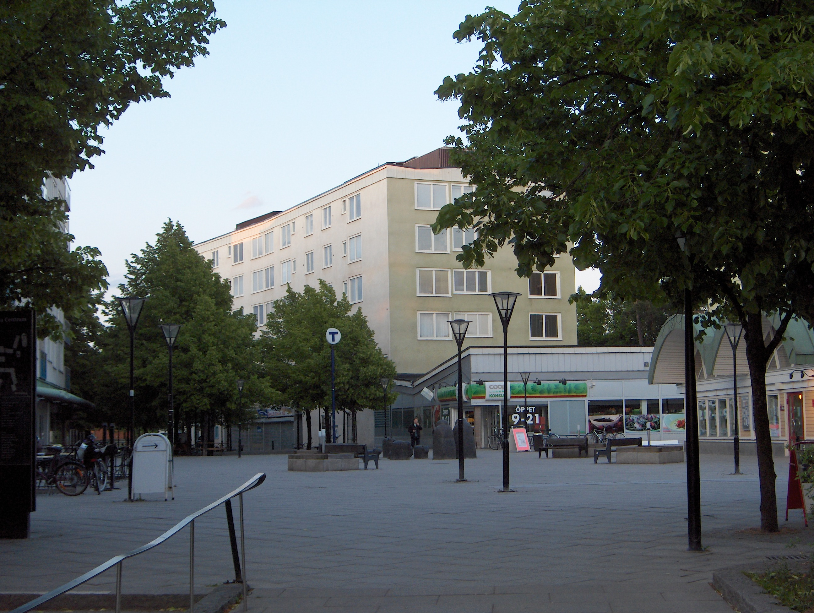 Bergshamra in Solna, Sweden.